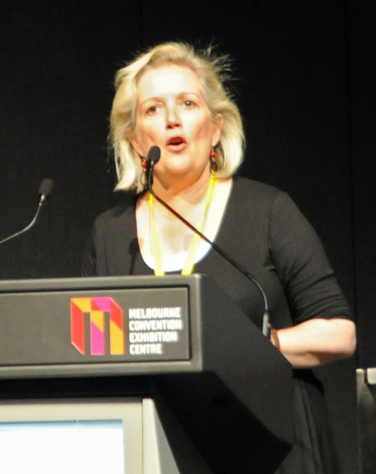 Jane Caro at the 2010 Global Atheist Convention in Melbourne, Australia